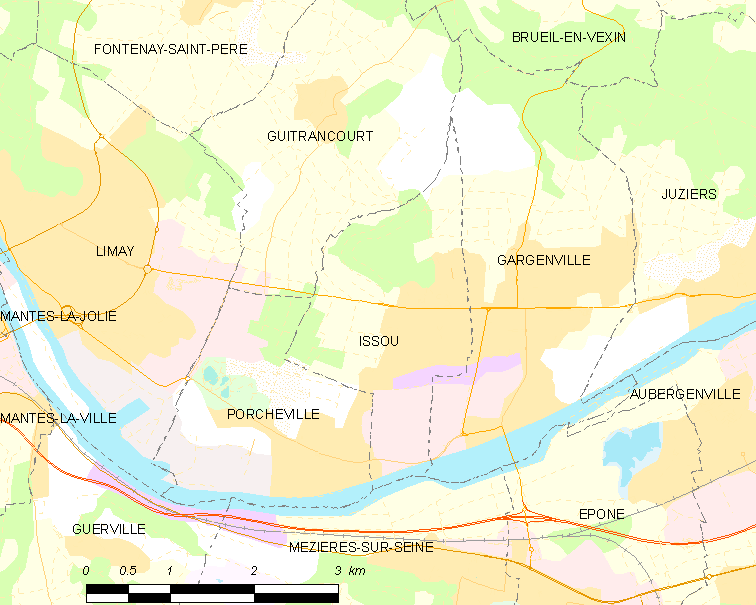 Map of French municipality Issou